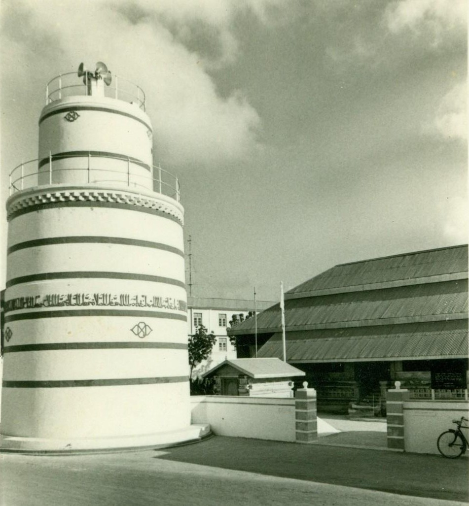 Minaret of the Friday mosque in Male'before the city's streets were paved.